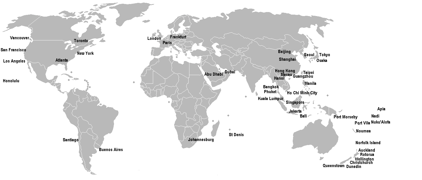 International destinations of flights from Sydney Airport, September 2009